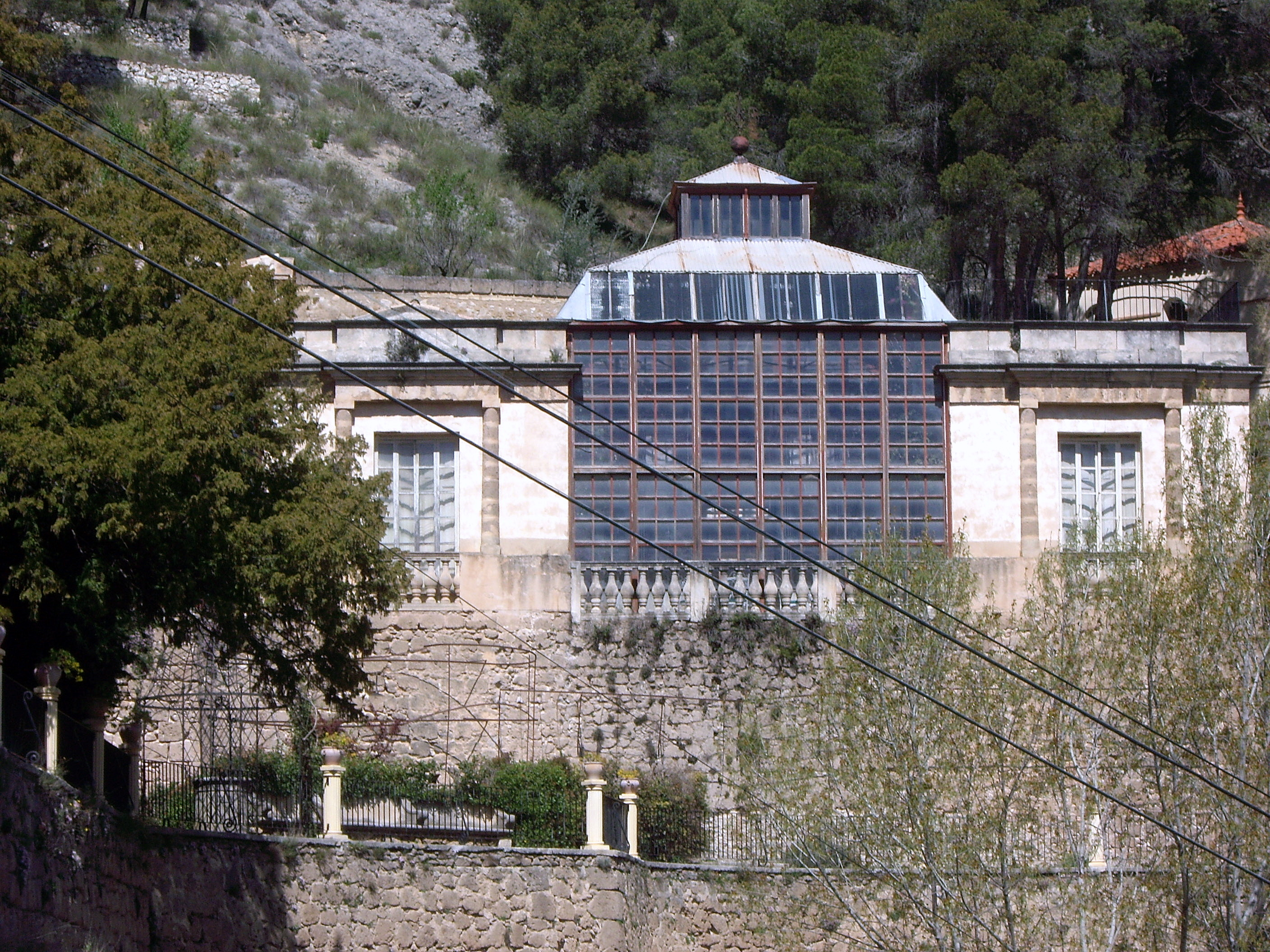 Greenhouse of Brutinel's garden in Alcoi